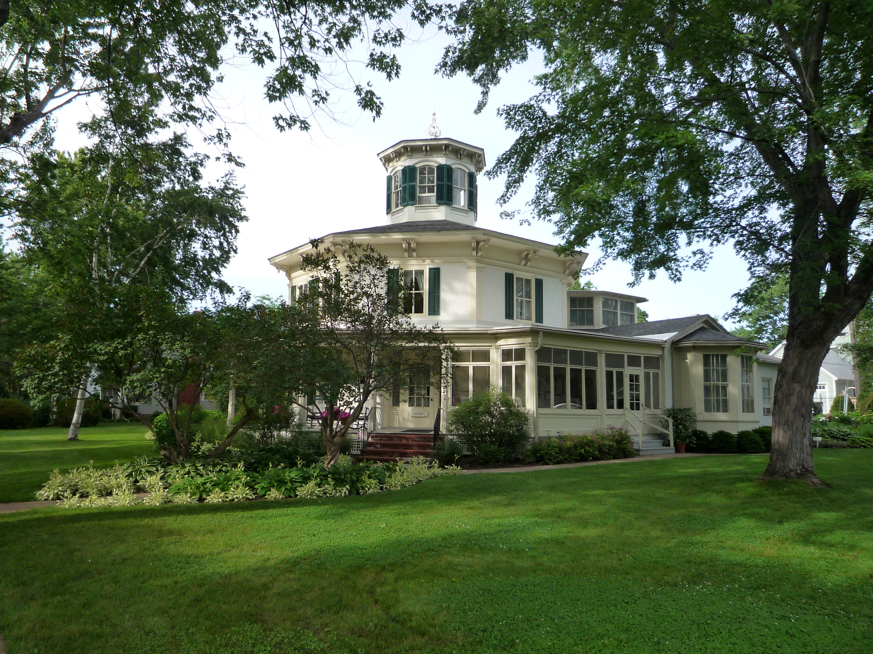 John S. Moffat House (built 1855), now known as the Octagon House Museum, River Falls, Wisconsin, USA.